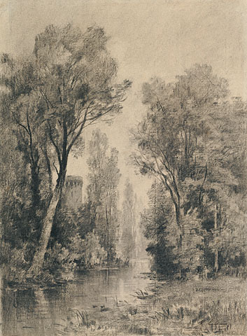 Castle Overlooking a River. Charcoal, 15 3/4 x 11 5/8 in.